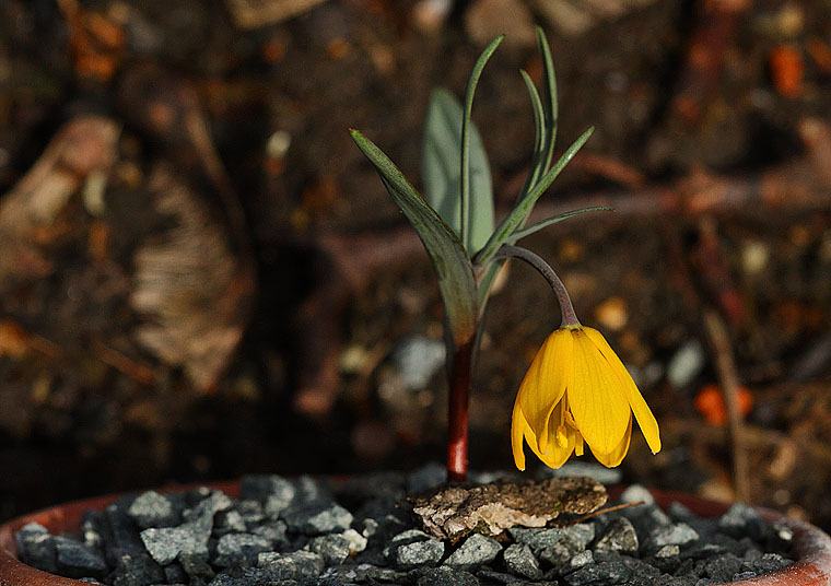 Fritillaria serpenticola